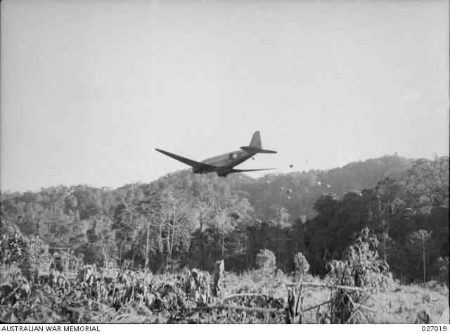 AWM Caption: PAPUA, NEW GUINEA. 1942-10. DOUGLAS C47 TRANSPORT PLANE OF THE UNITED STATES AIR FORCE DROPPING FOOD SUPPLIES ON A CLEARED SPACE AT NAURO VILLAGE DURING THE ADVANCE OF THE 25TH AUSTRALIAN INFANTRY BRIGADE OVER THE OWEN STANLEY RANGE.